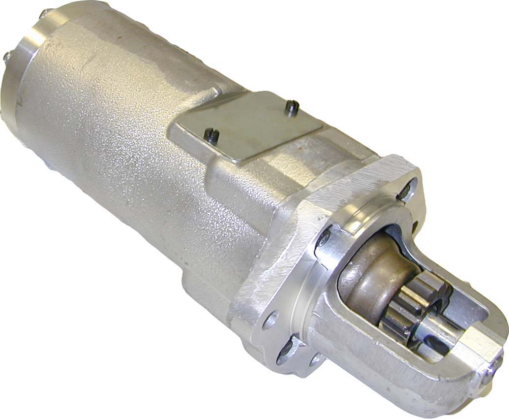 CMA Hydraulic Starter manufactured by Kocsis Technologies, Inc.